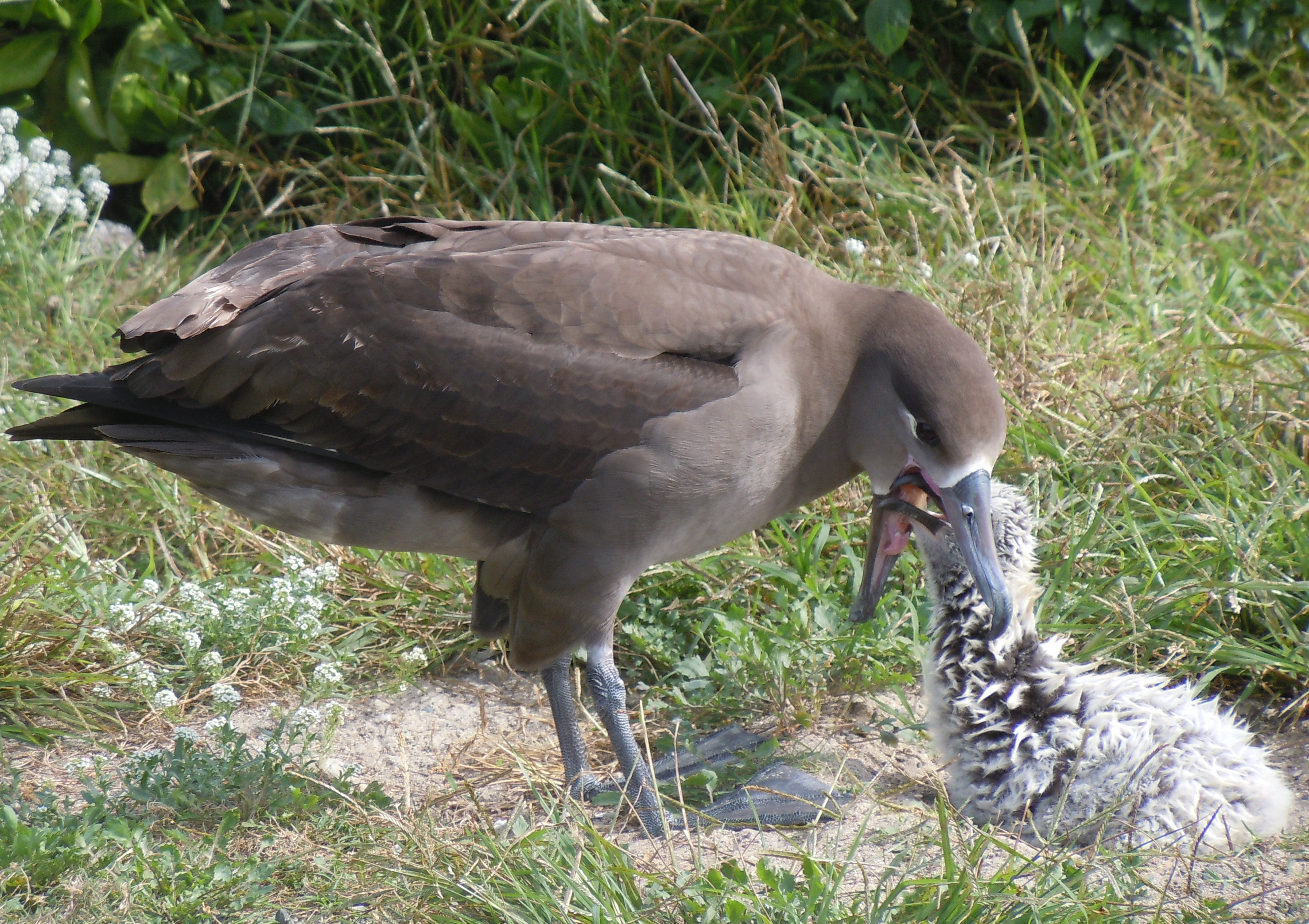 Midway Atoll National Wildlife Refuge March 2012 Photo: Noah Kahn/USFWS